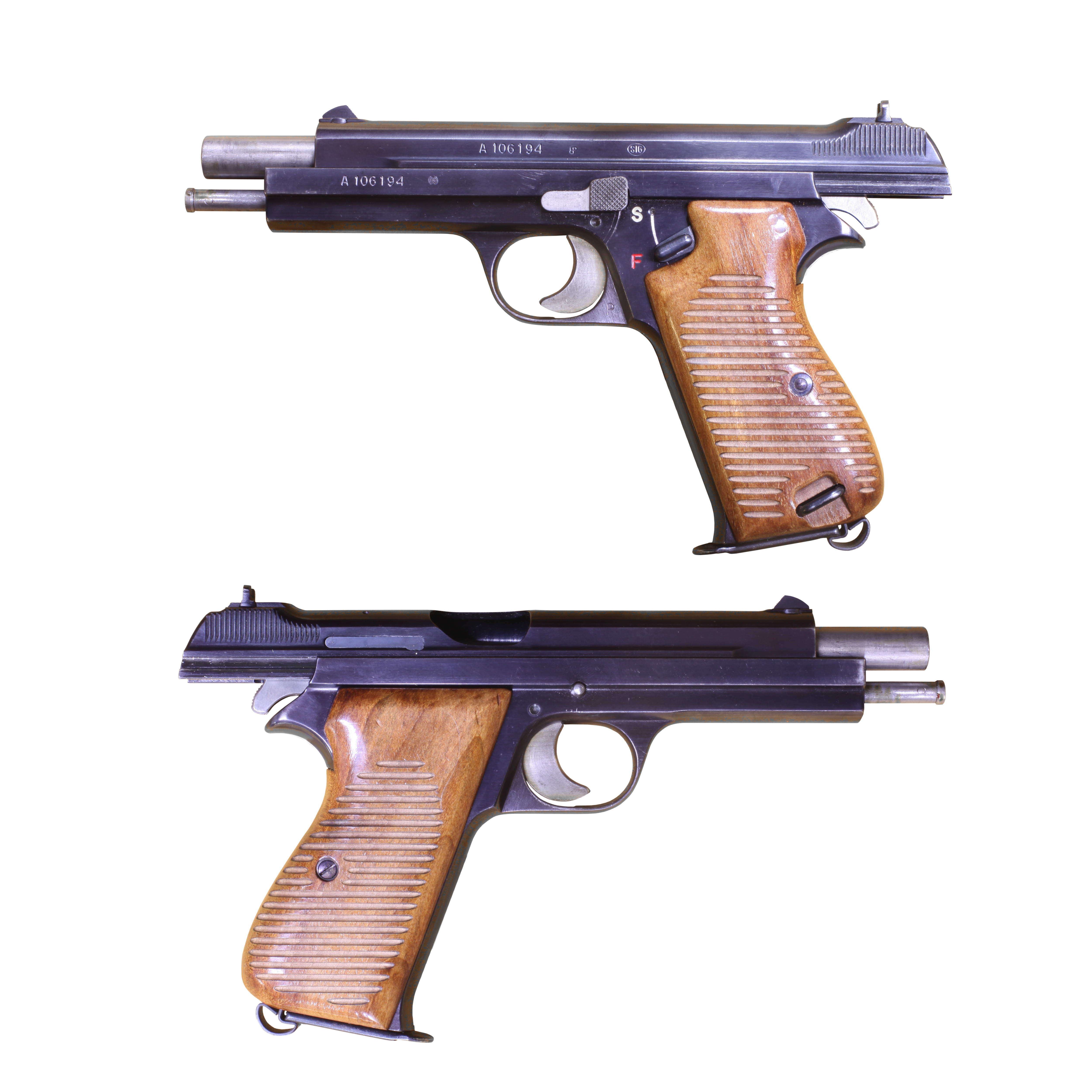 SIG P210, slide opened. Two views of the same object. Collection Paul Regnier, Lausanne, Switzerland